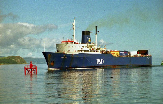 The "Europic Ferry" at Larne. The veteran (and much-loved) ferry Europic Ferry arriving at Larne from Cairnryan. Built by Swan Hunter in 1967 and part of the Falklands Task Force as a STUFT (ship taken up from trade).